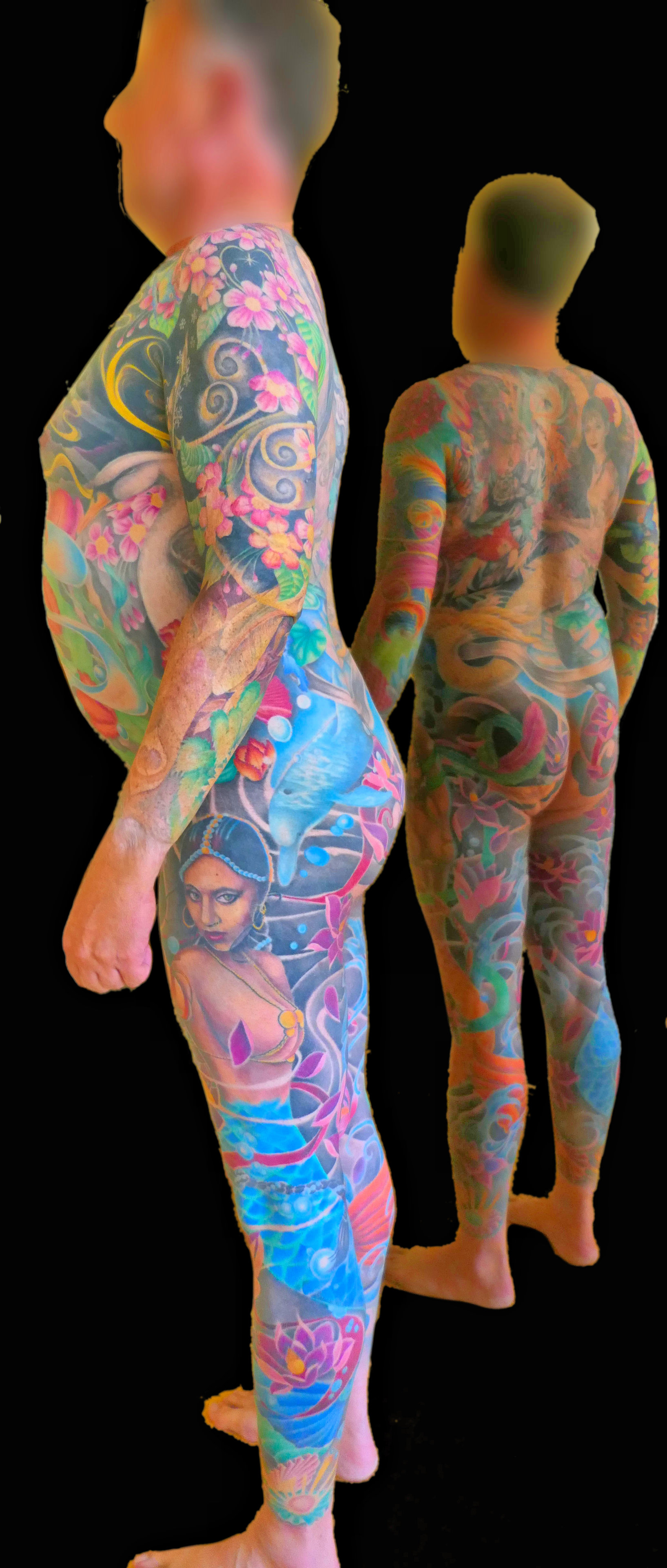 Full body suit: Chest, back and both arms tattooed by Maaika, Growink, Heerenveen, Netherlands; design is made by herself. Mermaid on back by Claudia, Classic Ink & Mods, Amsterdam, Netherlands, based on photo of clients daughter. Portrait on right shouder blade by Ezequiel Nuñez, Mallorca, Spain, based on photo of clients spouse. Legs tattooed by Patrick McFarlane, The Black Freighter Tattoo, Chester, Cheshire, UK; design right leg is inspired by Luis Royo - The Serpents of the Moon; face of Anastasia Volochkova, prima ballerina, Moscow. Design left leg is based on pose of Urmila Matondkar, Bollywood actress, India.